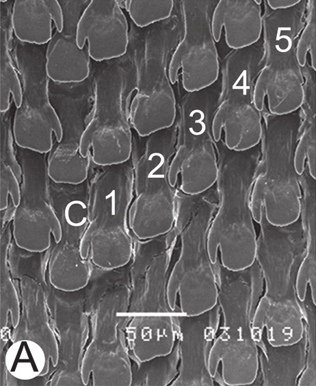 Photo of a radula of Amphidromus roseolabiatus from Ban Phavong, Khammouan, Laos (CUMZ 7012). Central tooth (C) with the first to fifth lateral teeth. Scale bar is 50 μm.